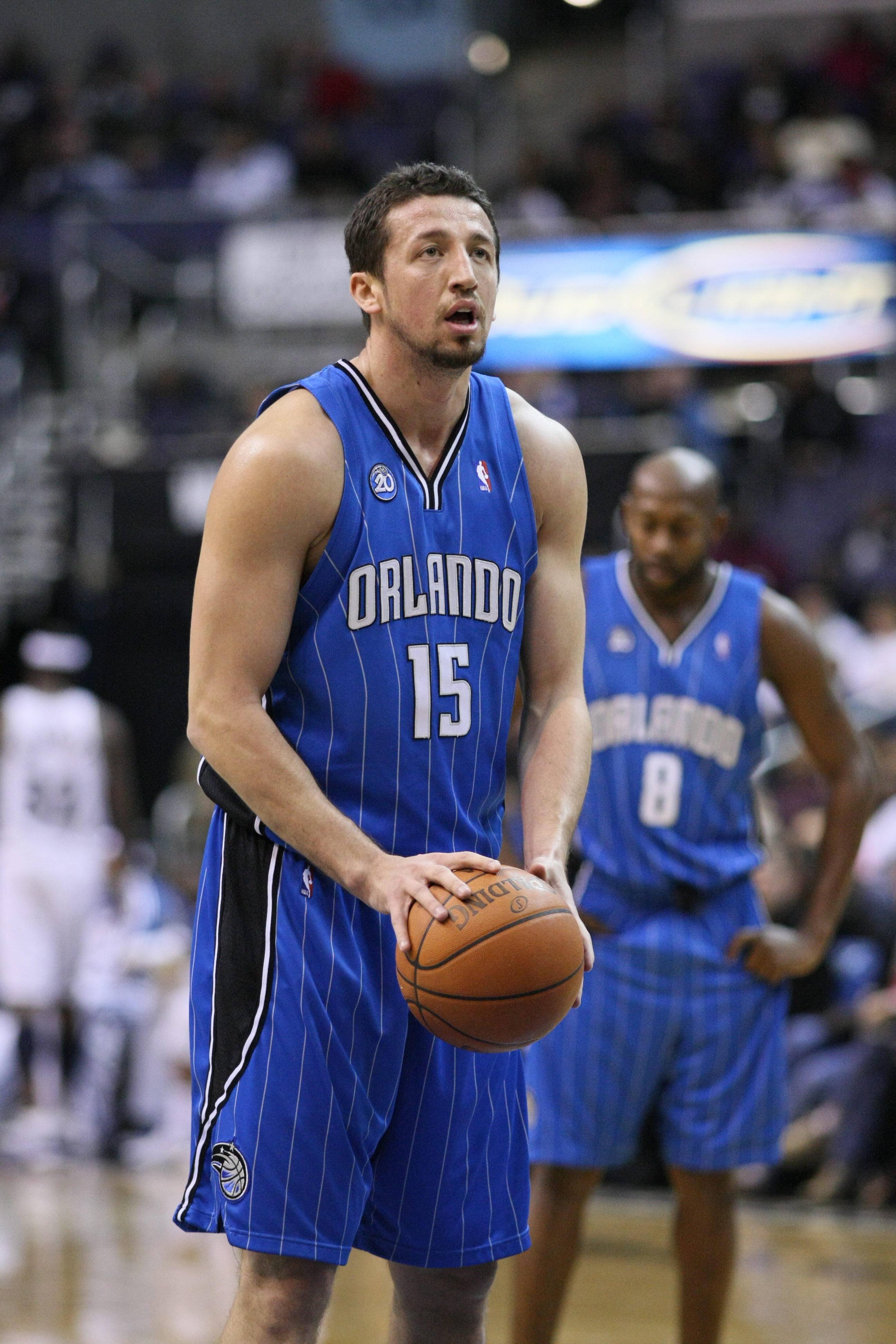 Hedo Turkoglu at the Washington Wizards v/s Orlando Magic game on 11/27/08